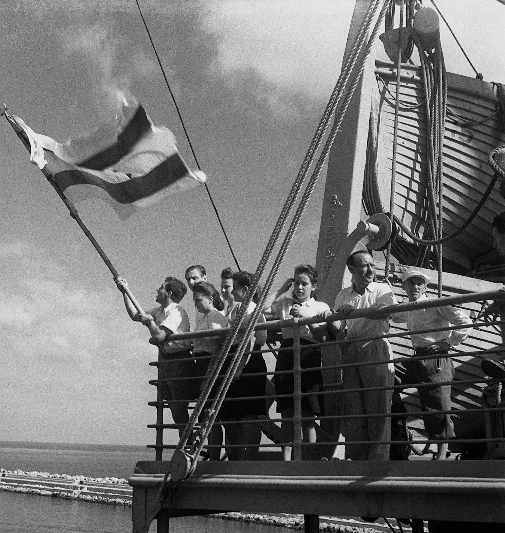 ILLEGAL IMMIGRANTS DEPORTED BY THE BRITISH TO THE ISLAND OF MAURITIUS, RETURNING ON BOARD OF THE S.S. "FRANKONIA" TO THE HAIFA PORT. אוניית המעפילים "פרנקוניה" שבה לנמל חיפה, לאחר שגורשה ע"י הבריטים לאי מאוריציוס.